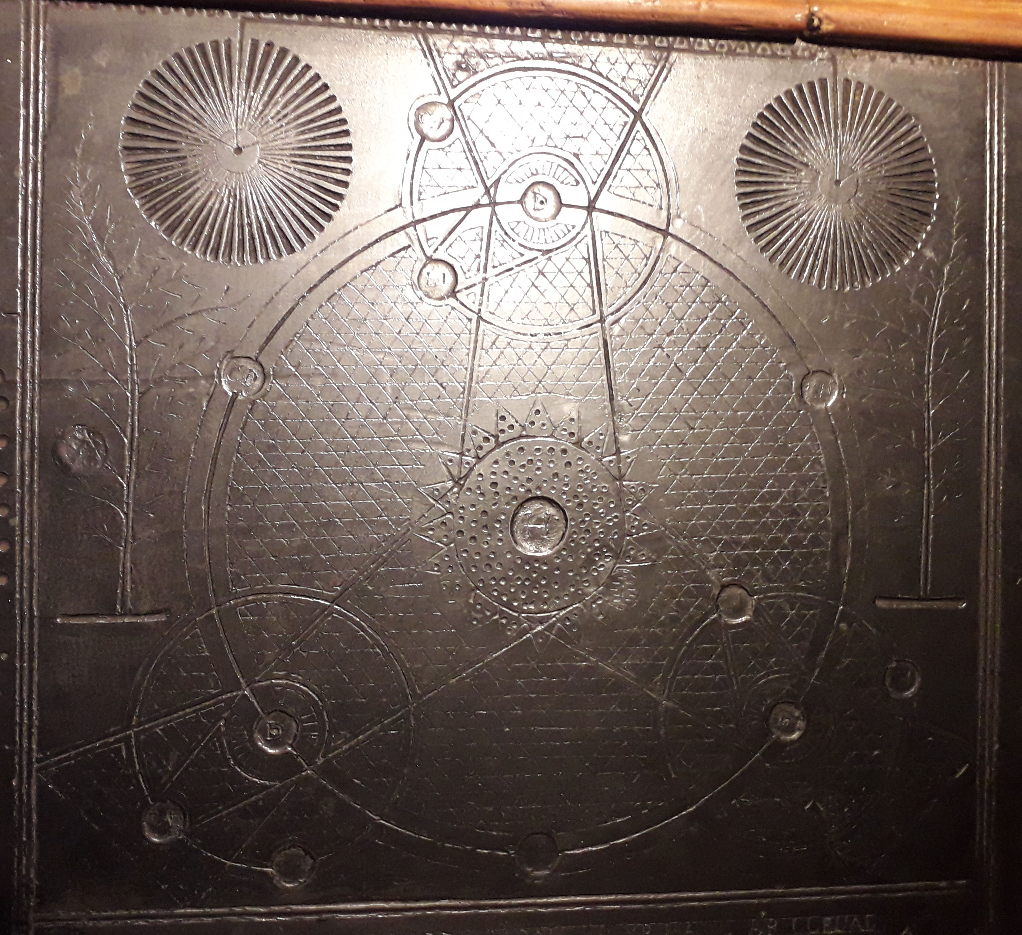 Part of Astronomical Carved Fire Surround. 1837. (Arfonwyson) Bryn Twrw. (Gwynedd, Wales)